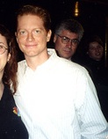 its old and i look like crap but look! some kind of wonderful mania!!!!!